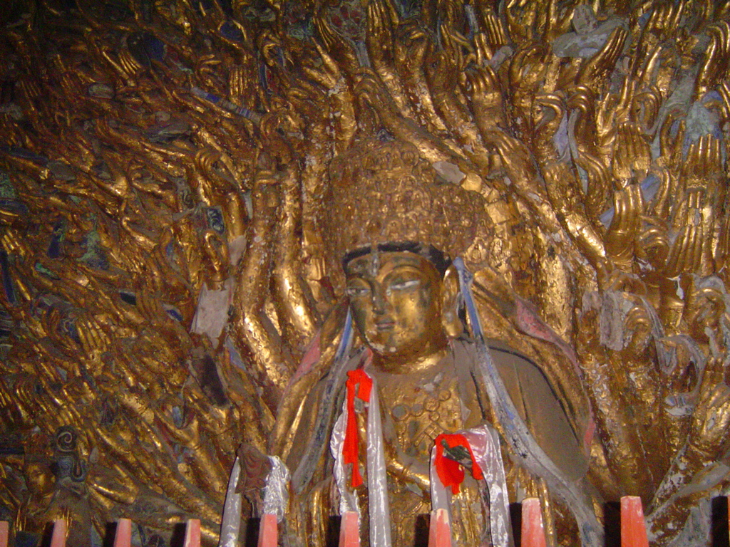 Avalokitesvara with a 1,000 arms, Mount Baoding, Dazu County, Chongqing, China 千手千眼观音菩萨像，重庆大足的宝顶山。